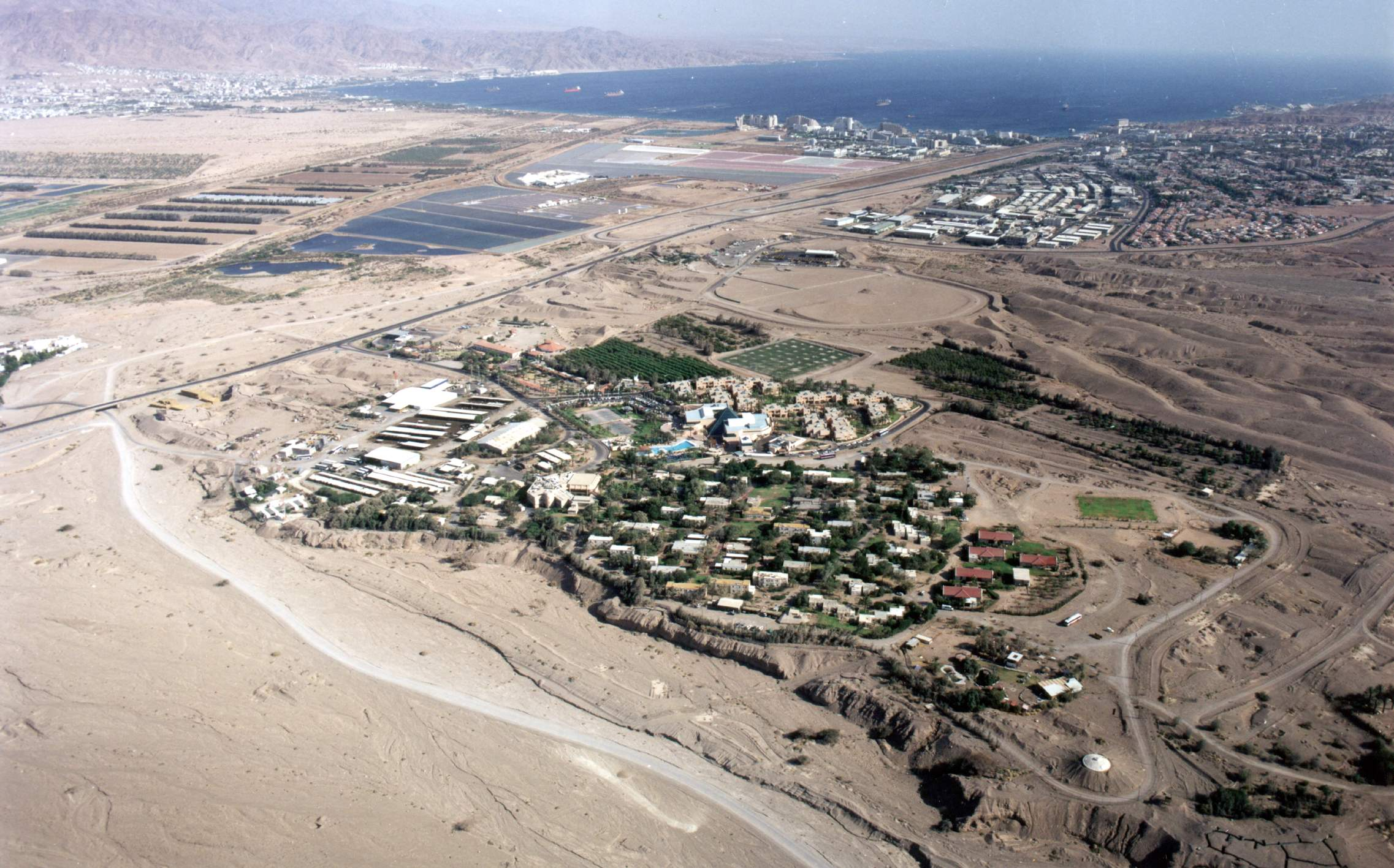 Aerial photographs of Kibbutz Eilot